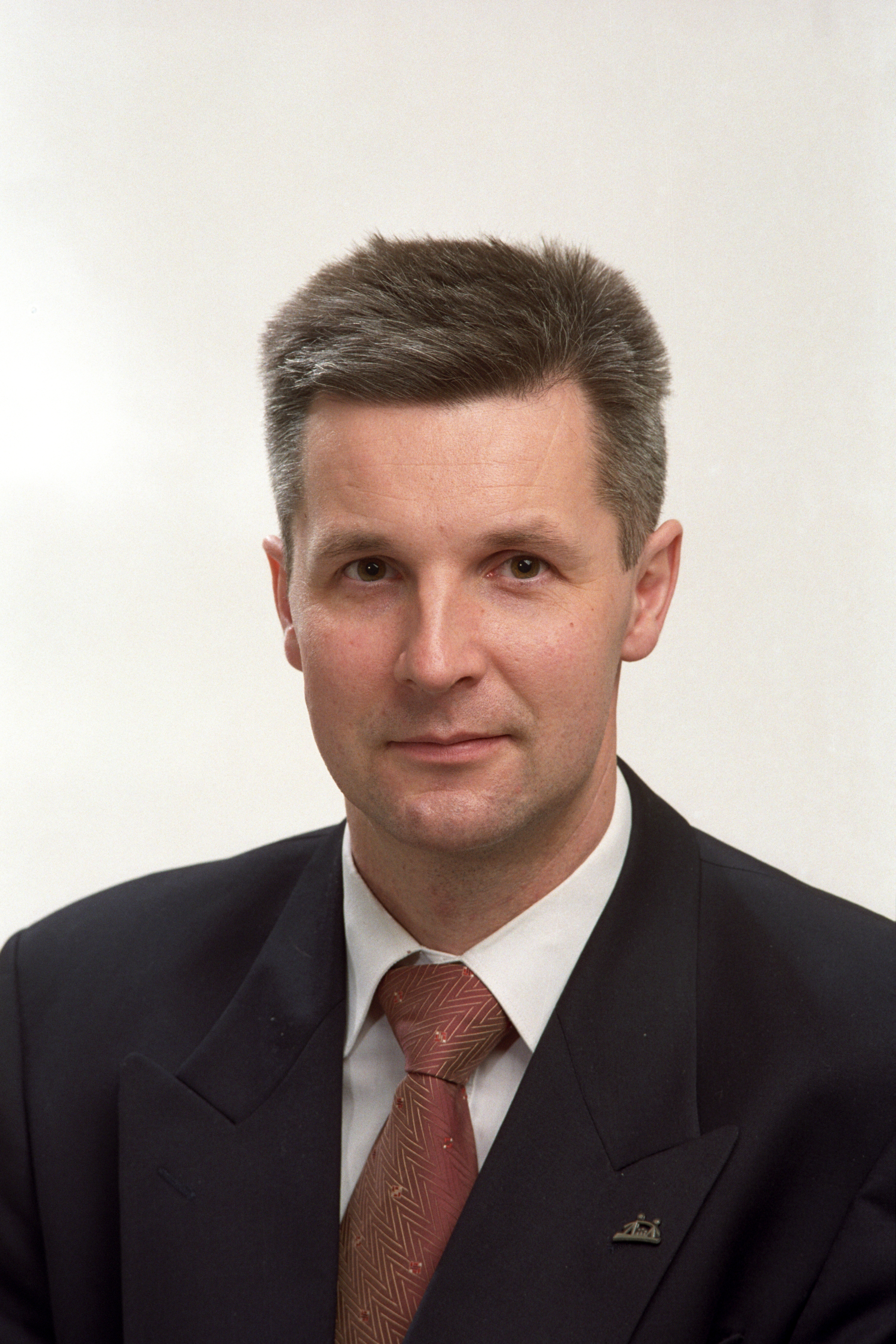 Deputy of the 9th Saeima Artis Pabriks